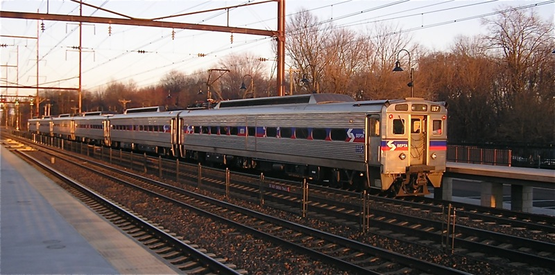 SEPTA's Croydon regional rail station on the Trenton Line.